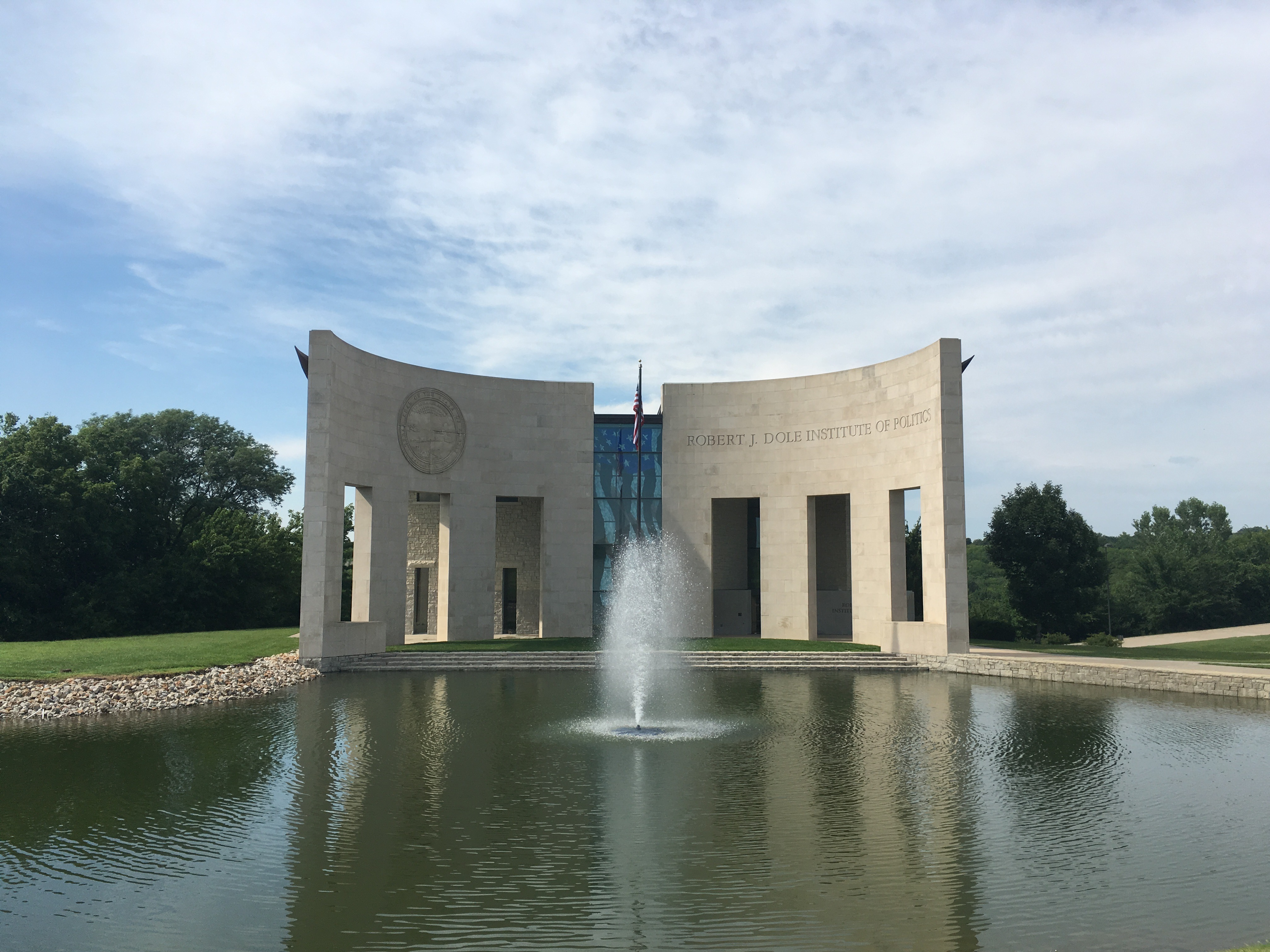 A photograph of the Dole Institute of Politics in July 2017.